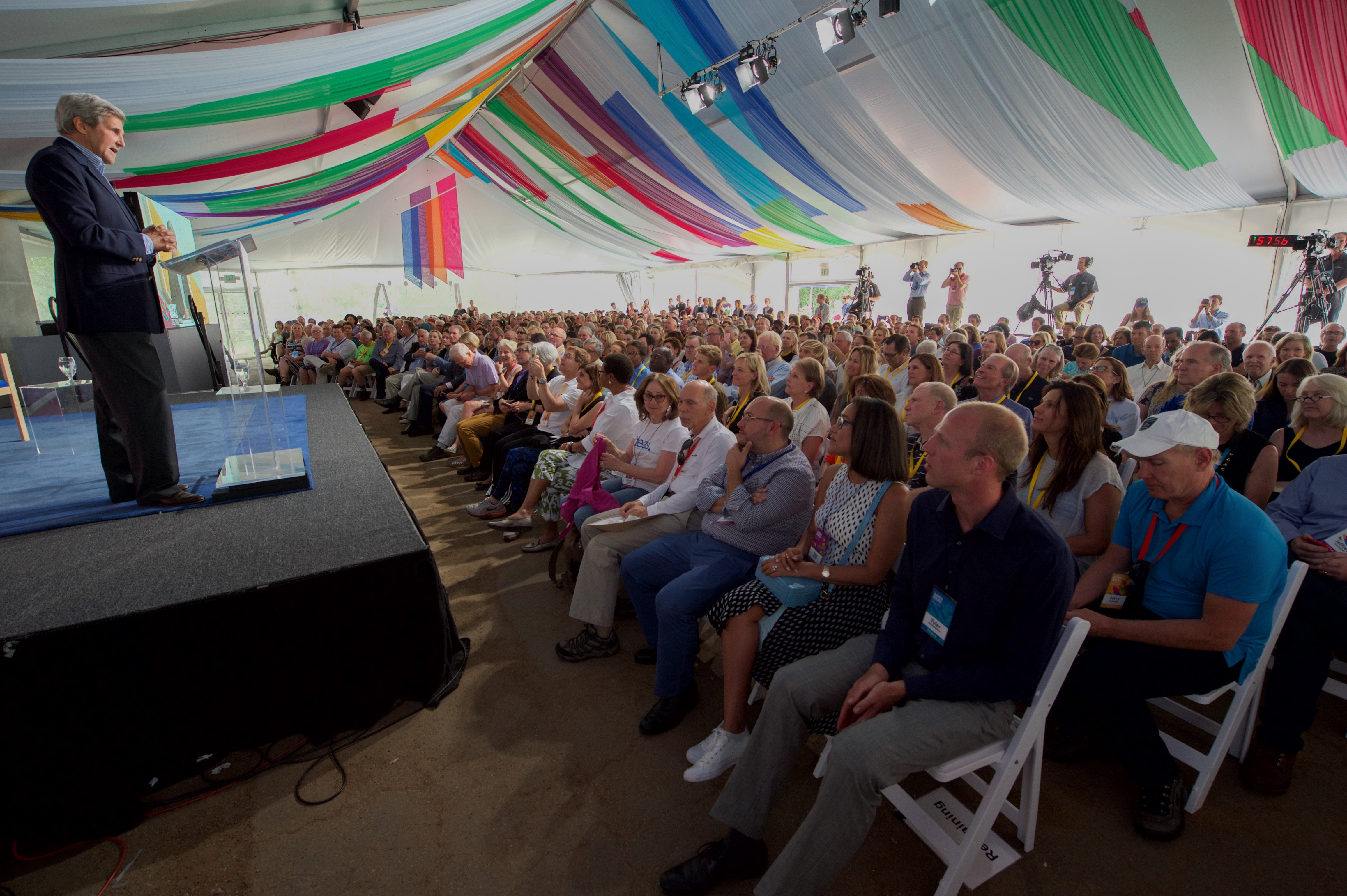 U.S. Secretary of State John Kerry addresses attendees at the Aspen Ideas Festival on June 28, 2016, at the Greenwald Pavilion at the Aspen Meadows Resort in Aspen, Colorado. [State Department photo/ Public Domain]